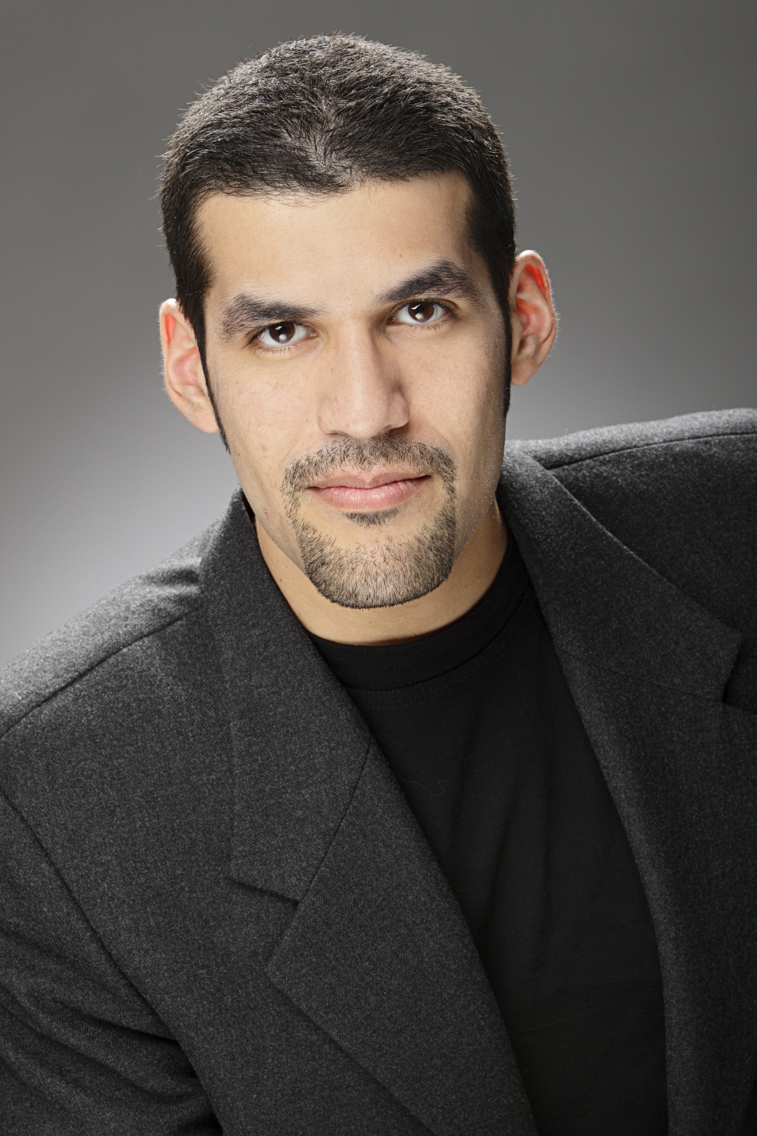 Jimmy Lopez in 2009.